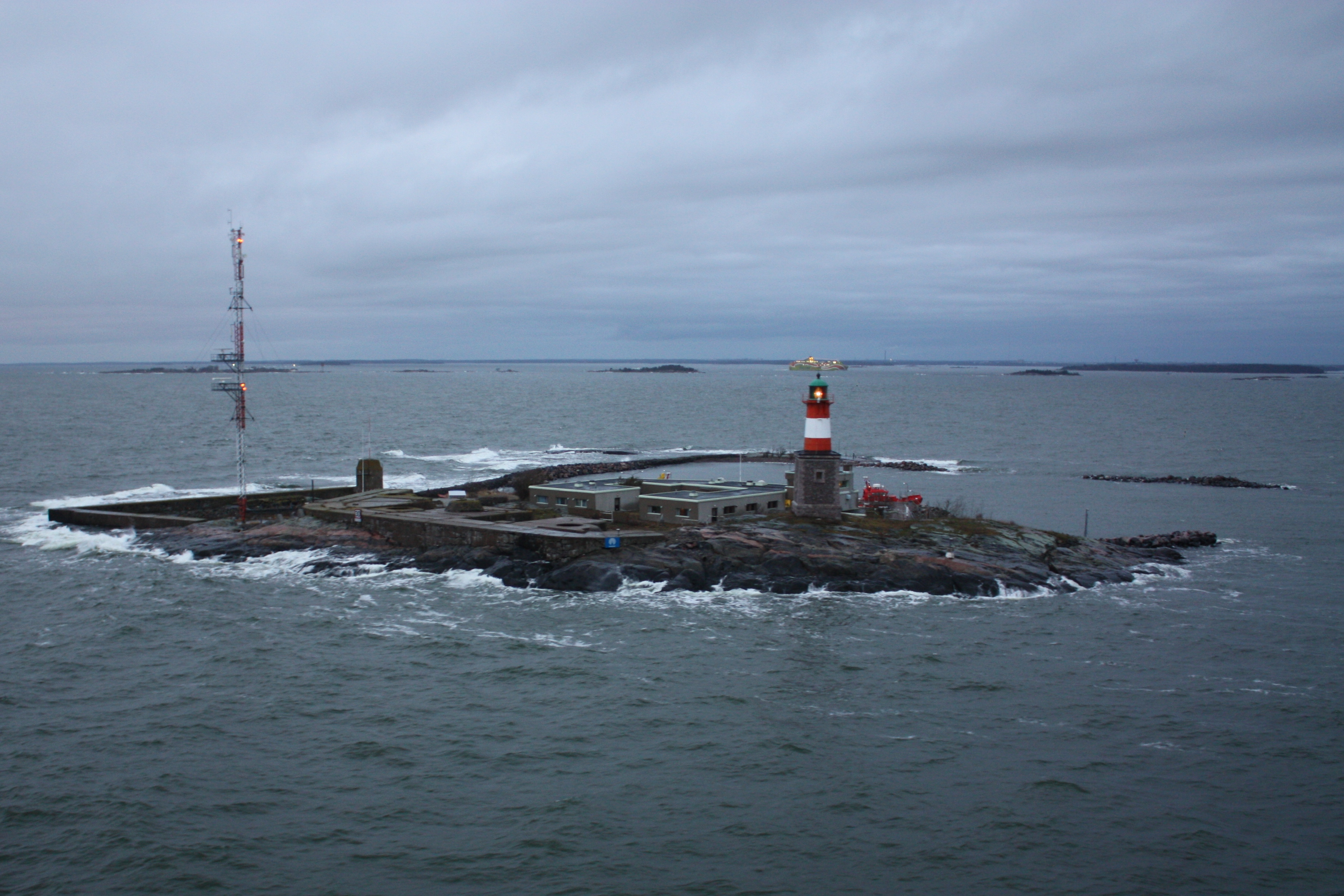 Harbour pilot station and lighthouse on Harmaja on the Finnish Gulf in front of Helsinki, Finland - Seen from the East. December 2008